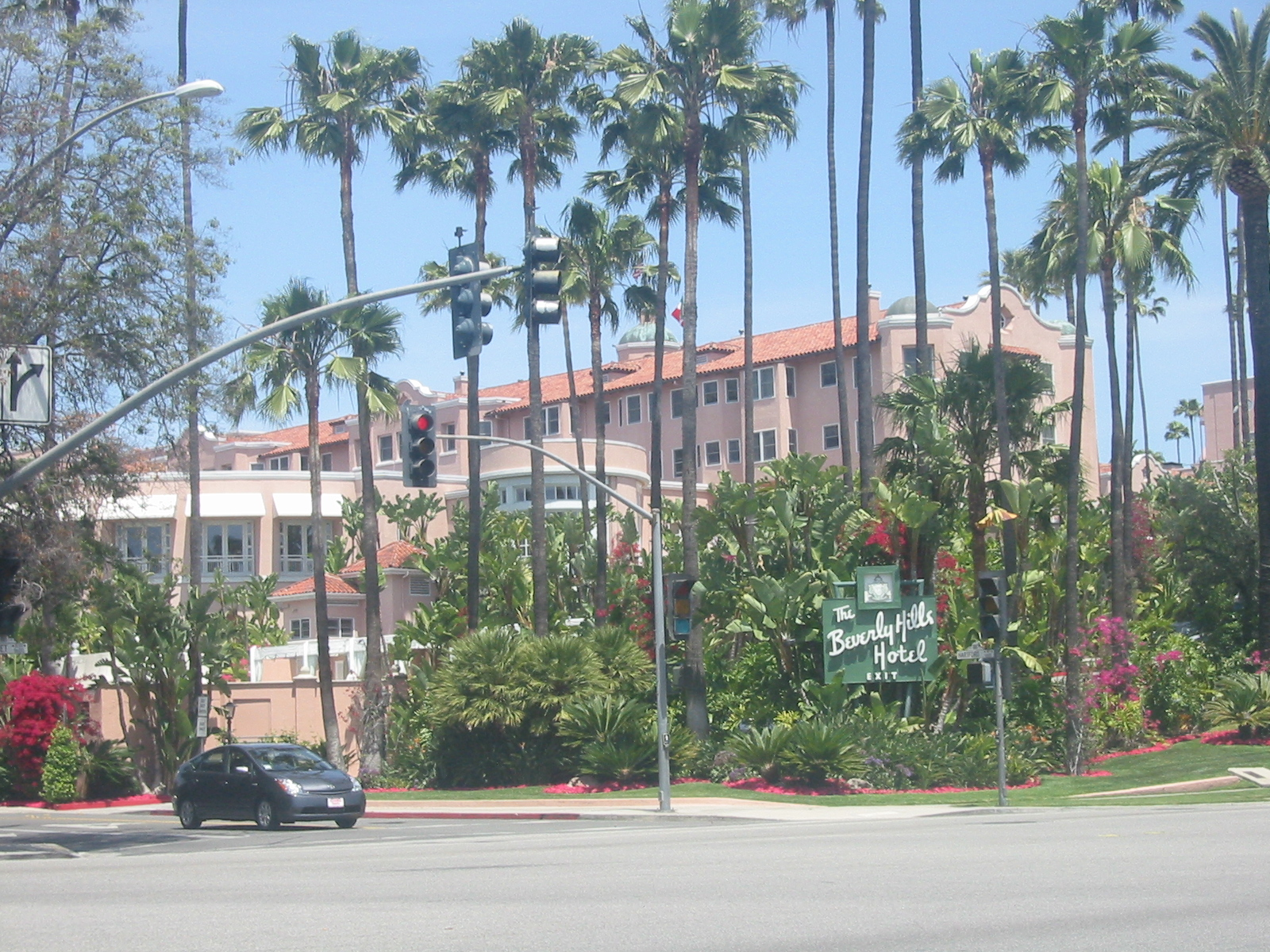 Beverly Hills Hotel, on Sunset Boulevard in Beverly Hills, California